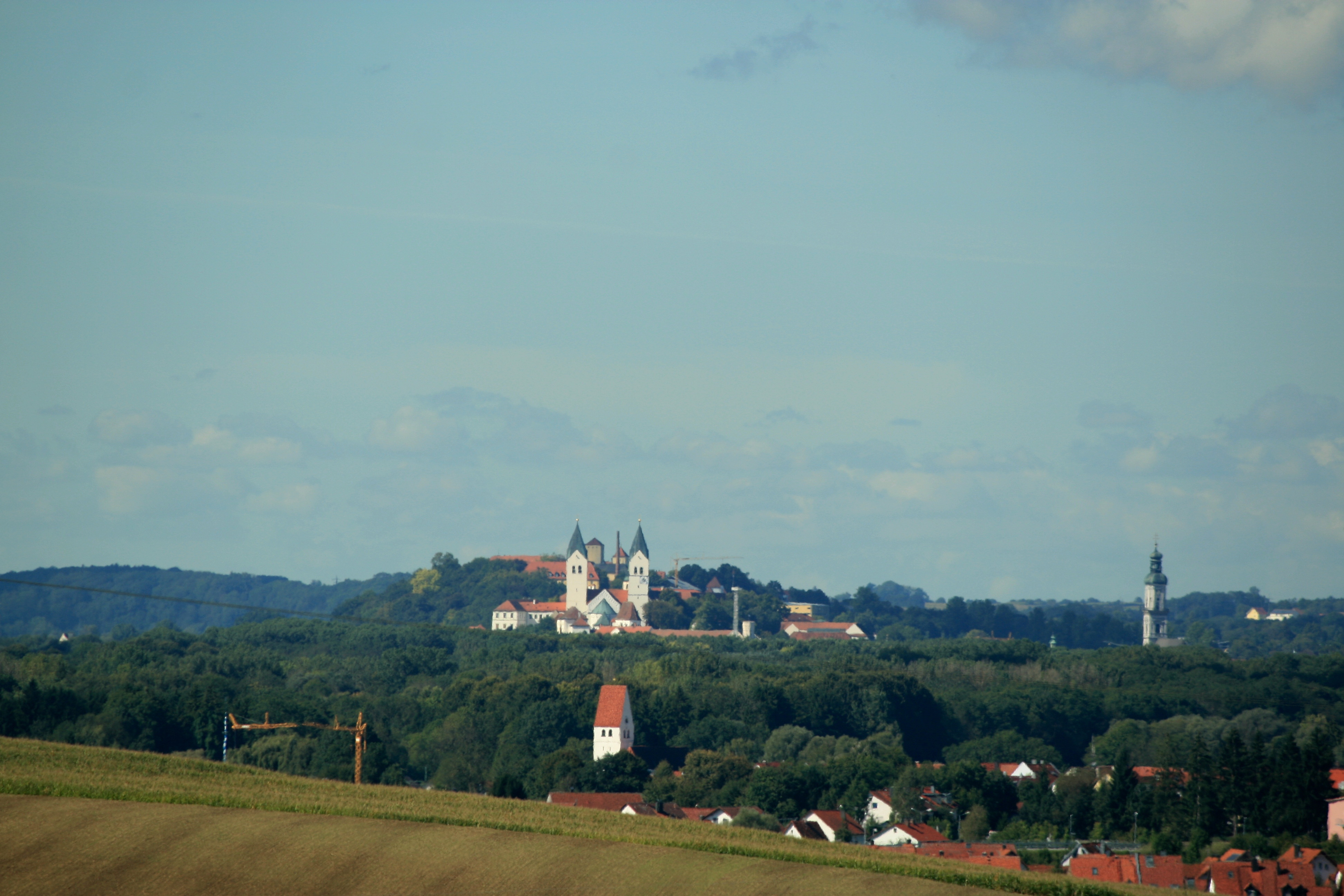 Freising in Bavaria with Domberg (Cathedral hill), Weihenstephaner Berg (Weihenstephan hill) and old town - as seen from the East